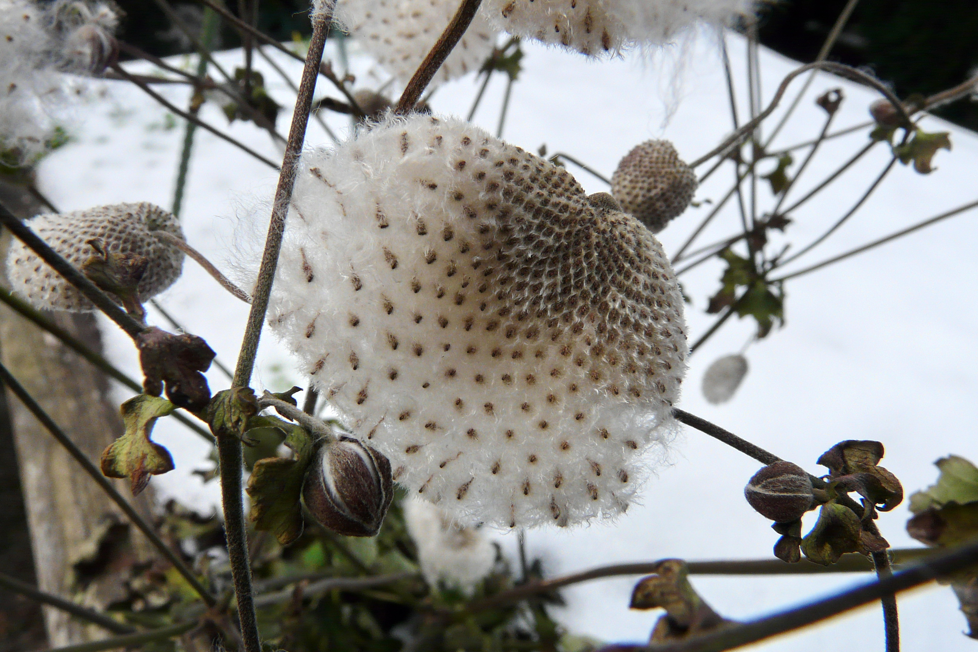 Anemone hybrida, seeds